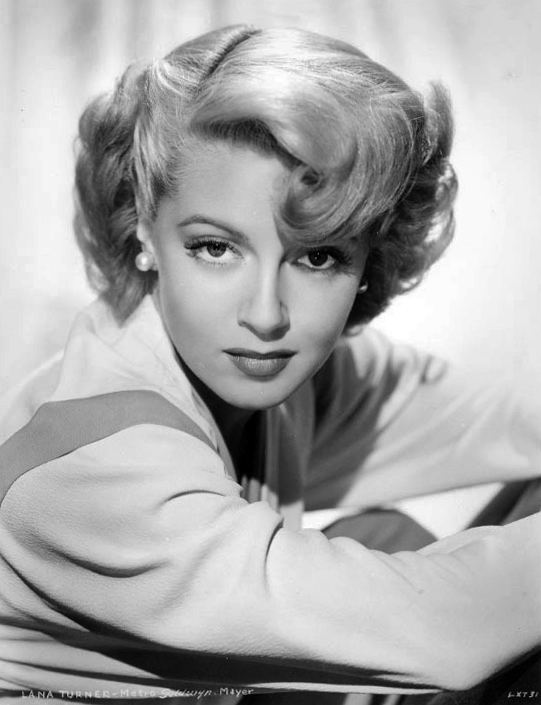 Publicity photo of Lana Turner